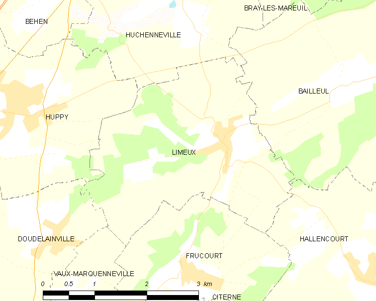 Map of French municipality Limeux